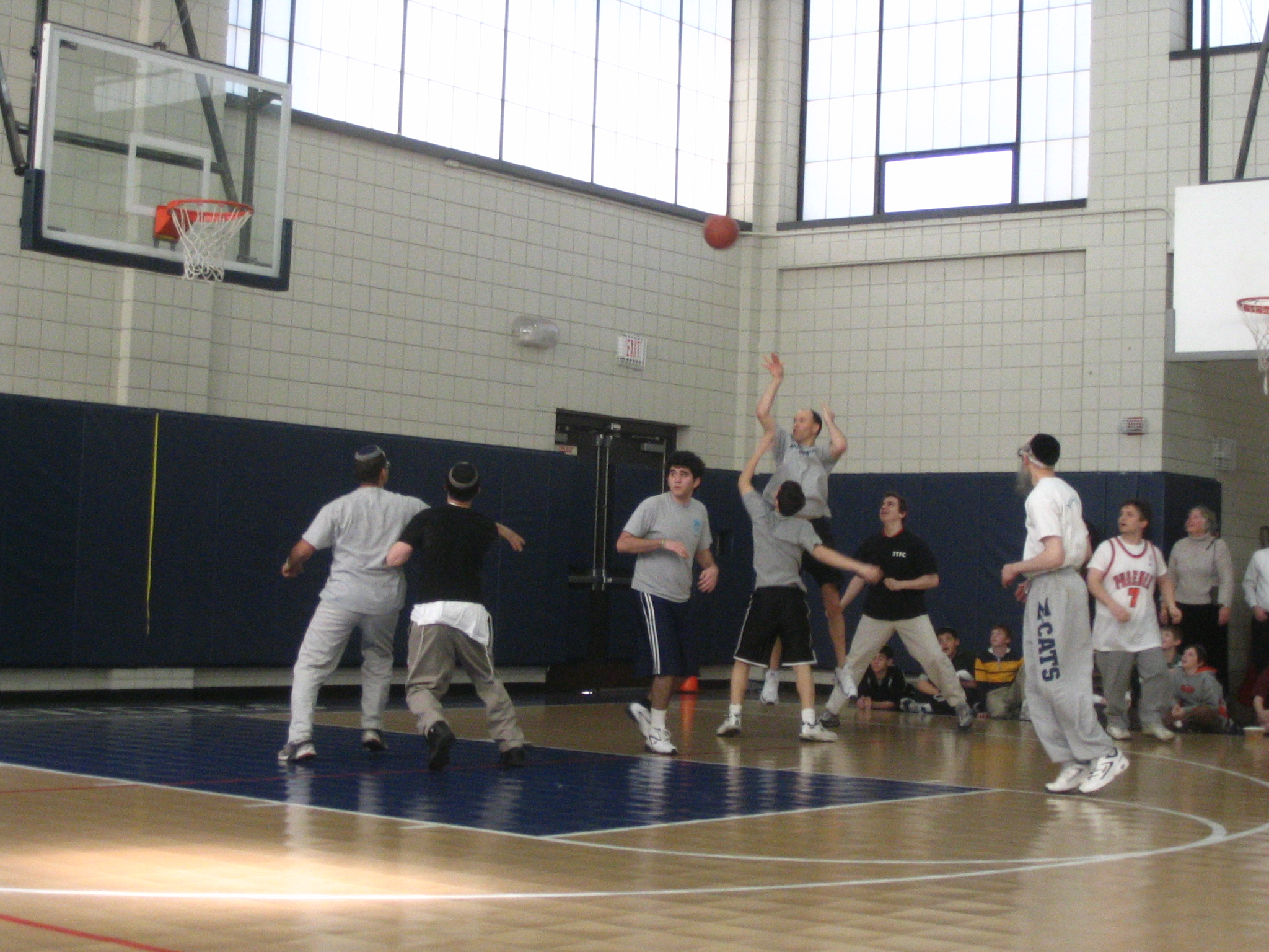 A picture from the Maimonides School Seniors vs. Faculty Basketball game.